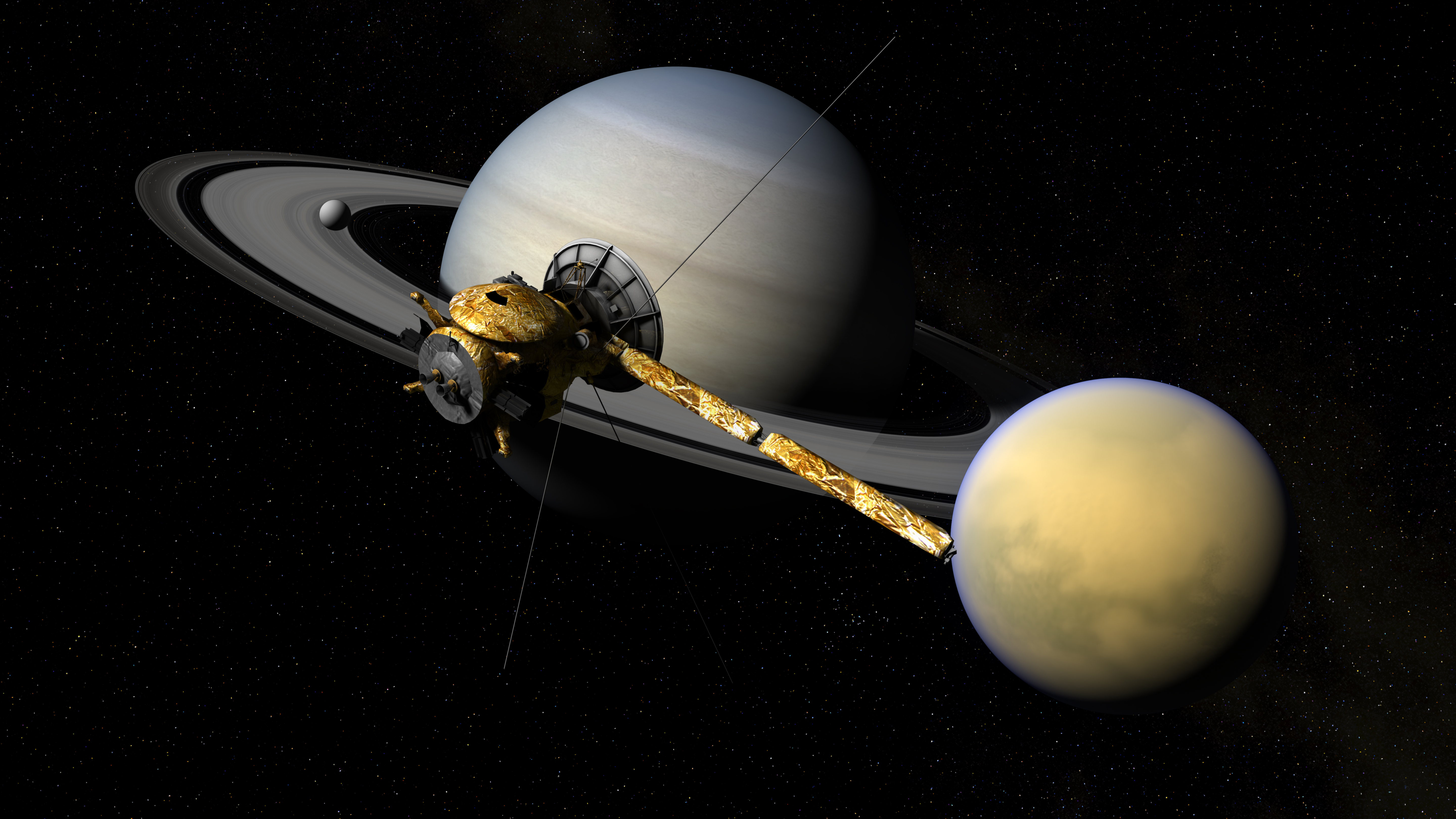 Cassini moving over Titan, Enceladus and Saturn. Rendered with Autodesk Maya, composited in Adobe Photoshop. Cassini Model: Brian Kumanchik, Christian Lopez. NASA/JPL-Caltech. Migrated to Maya & materials updated by Kevin M. Gill